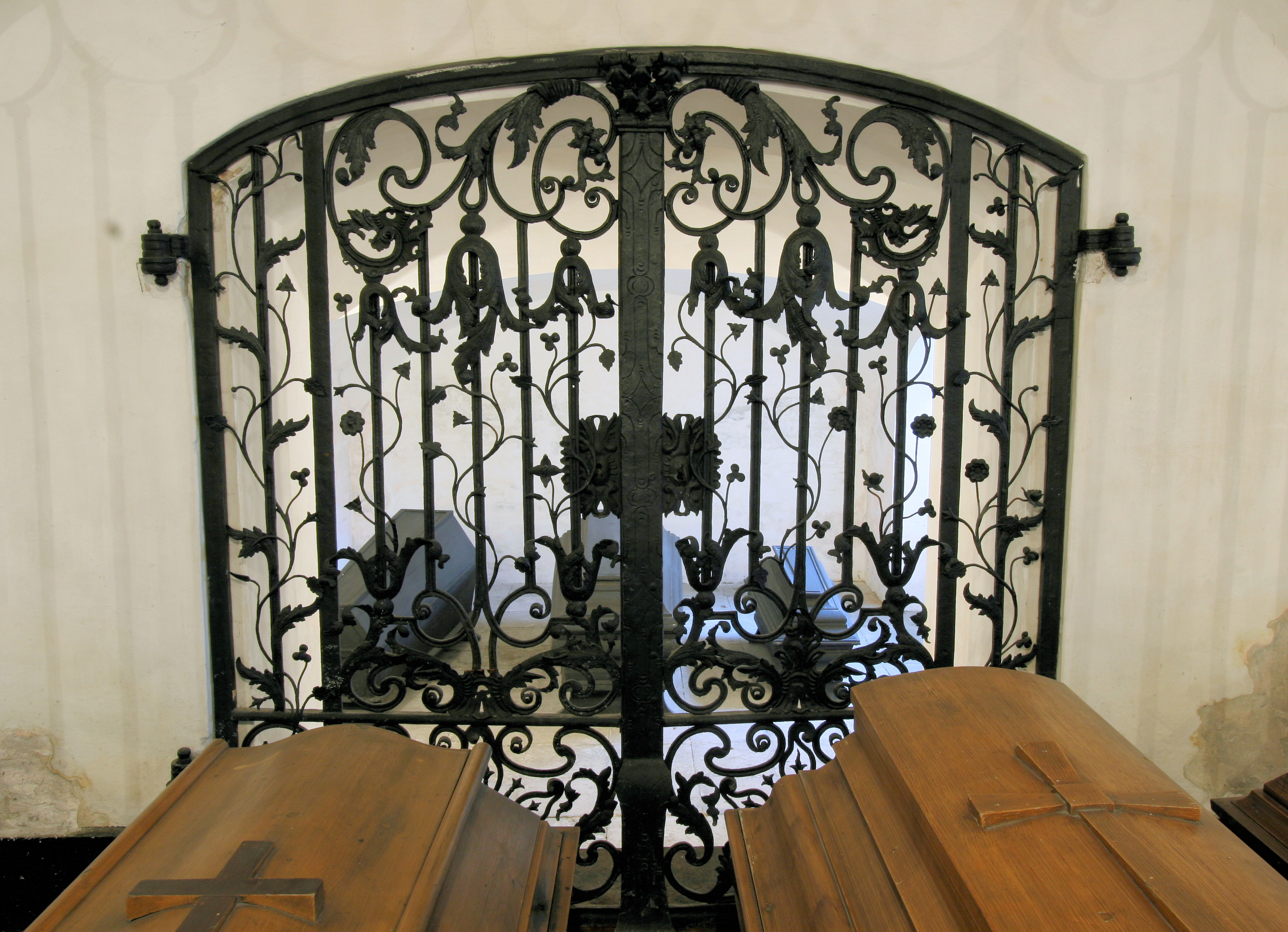 Christians Kirke, Copenhagen, Denmark. Chapel 15b. Countess Christiane Lerche.